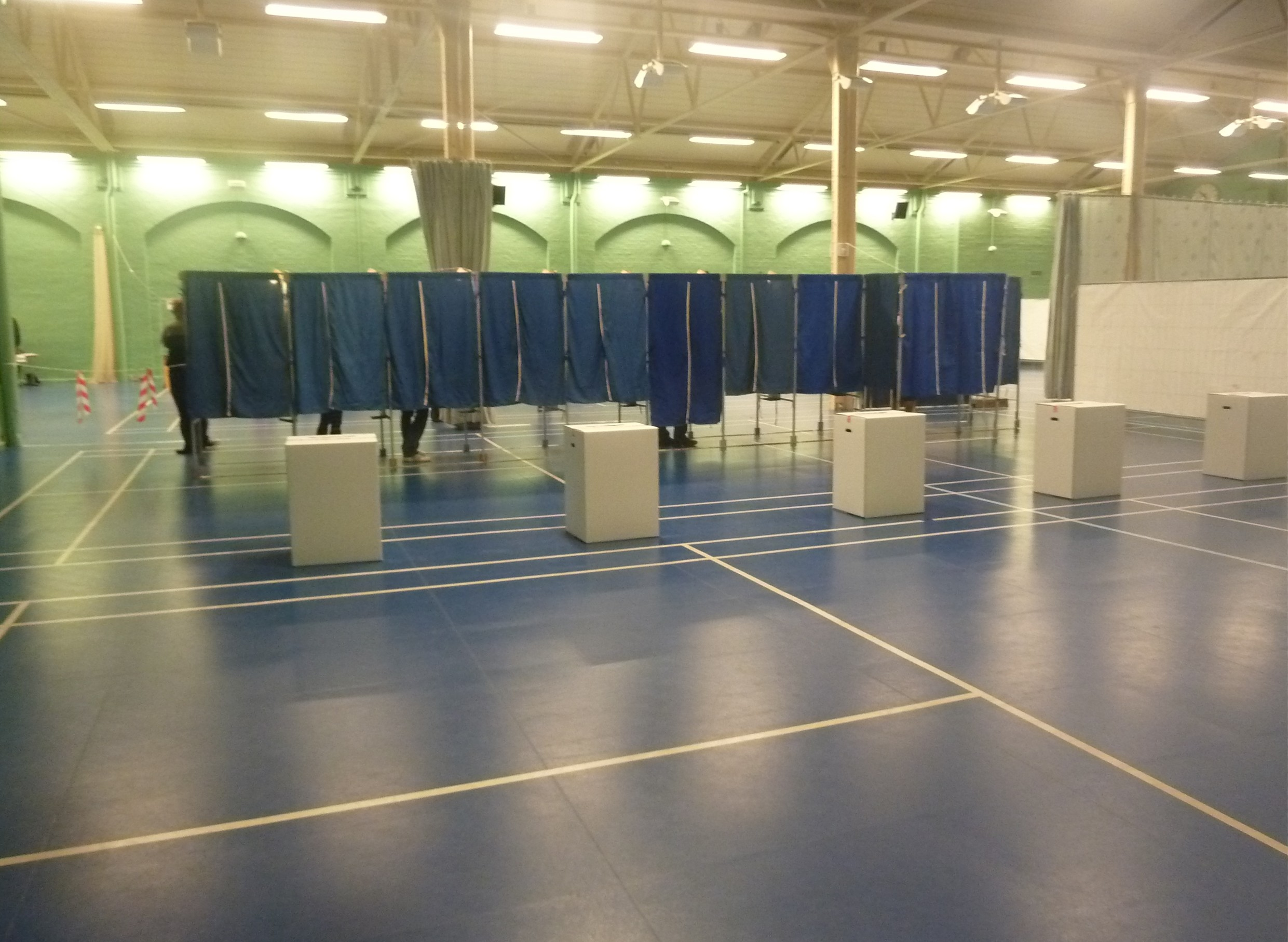 Voting boxes for the election in 2011 to the danish parliament, Folketinget. The lokation in question, Remisen in Østerbro, Copenhagen, former housed trams.